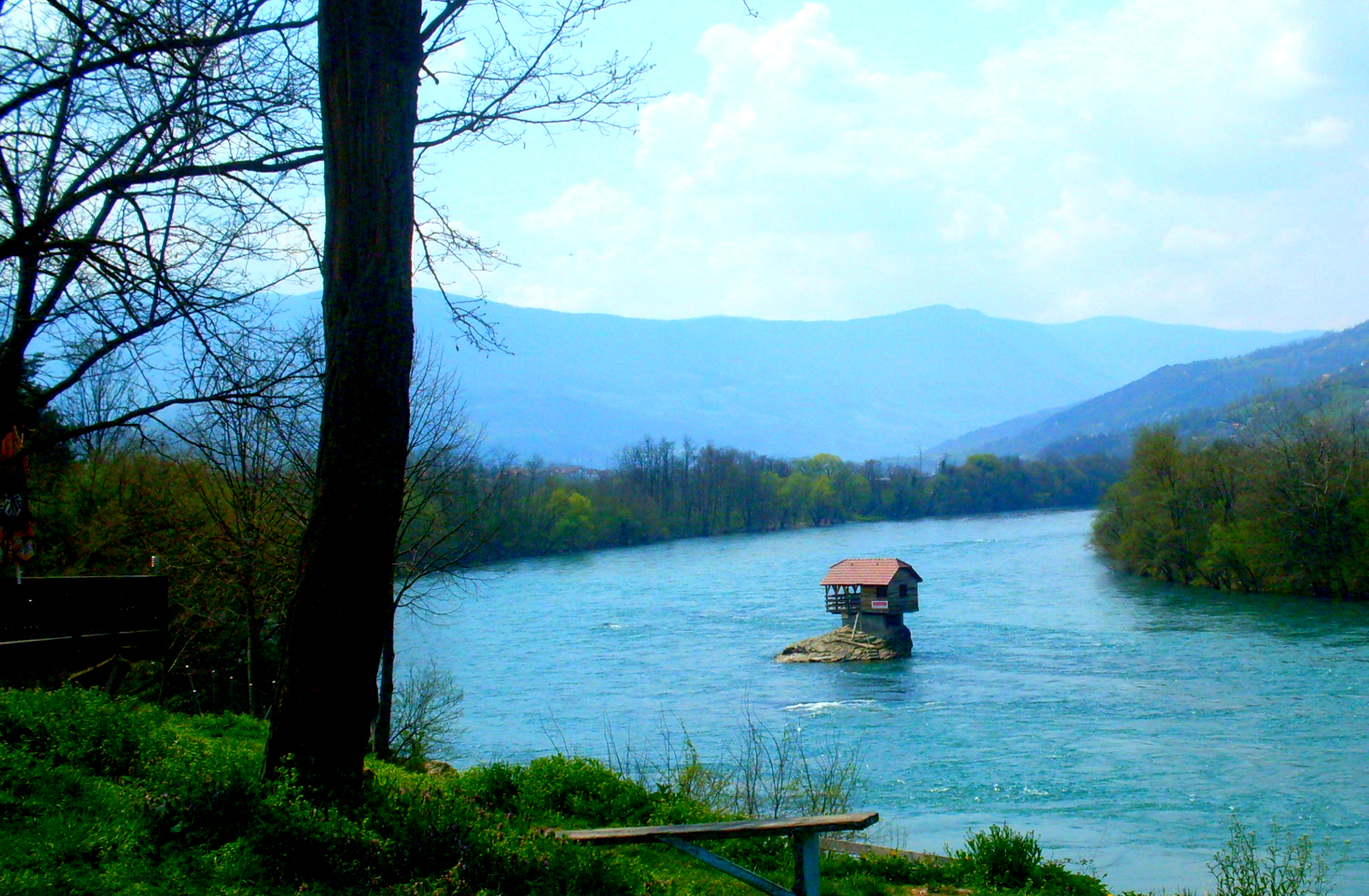 House On The River